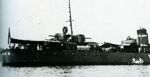 Photograph clip showing arrangement of aft 120-mm guns on Imperial Japanese Navy destroyer Namikaze.